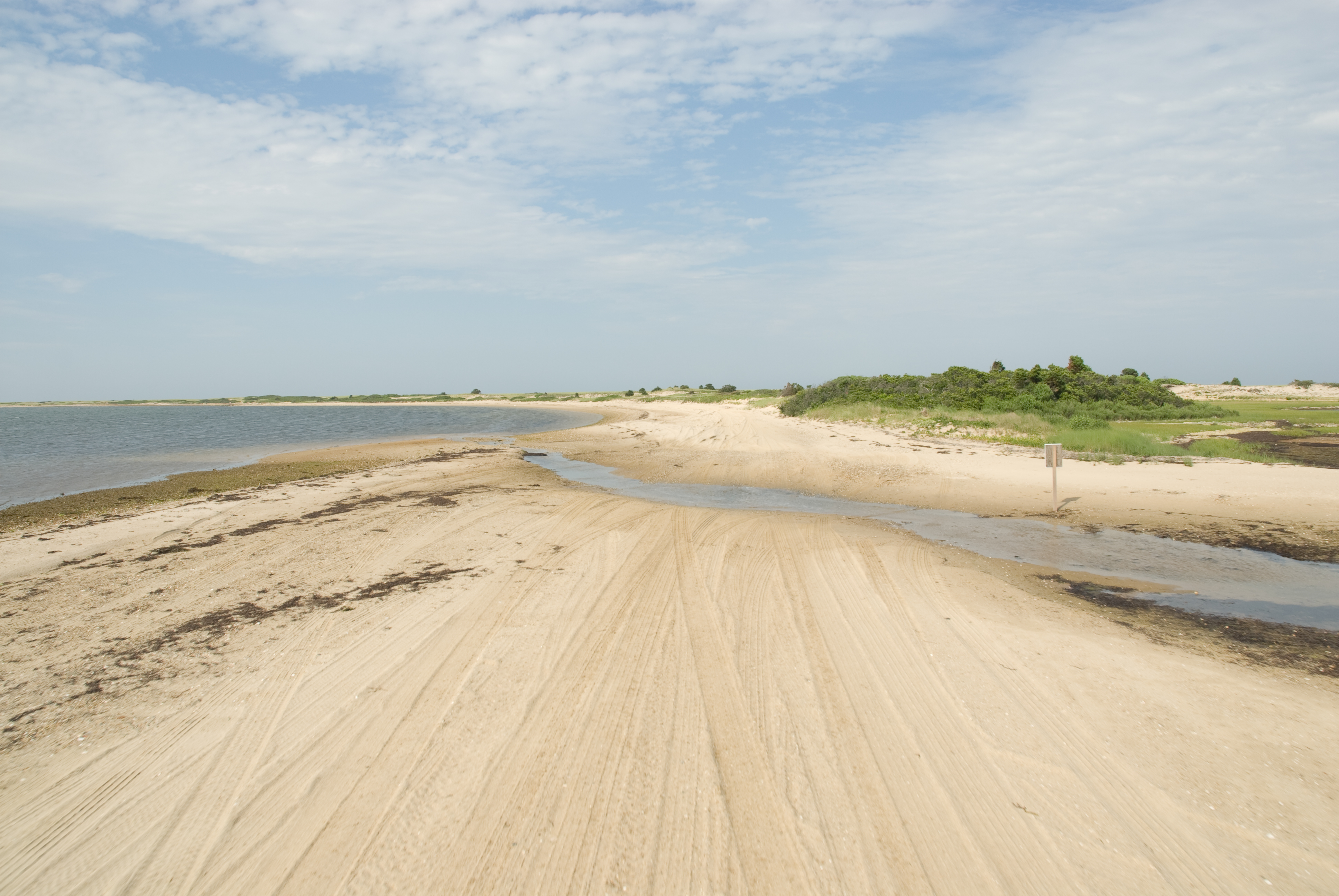 Cape Poge Bay, Chappaquiddick, Massachusetts